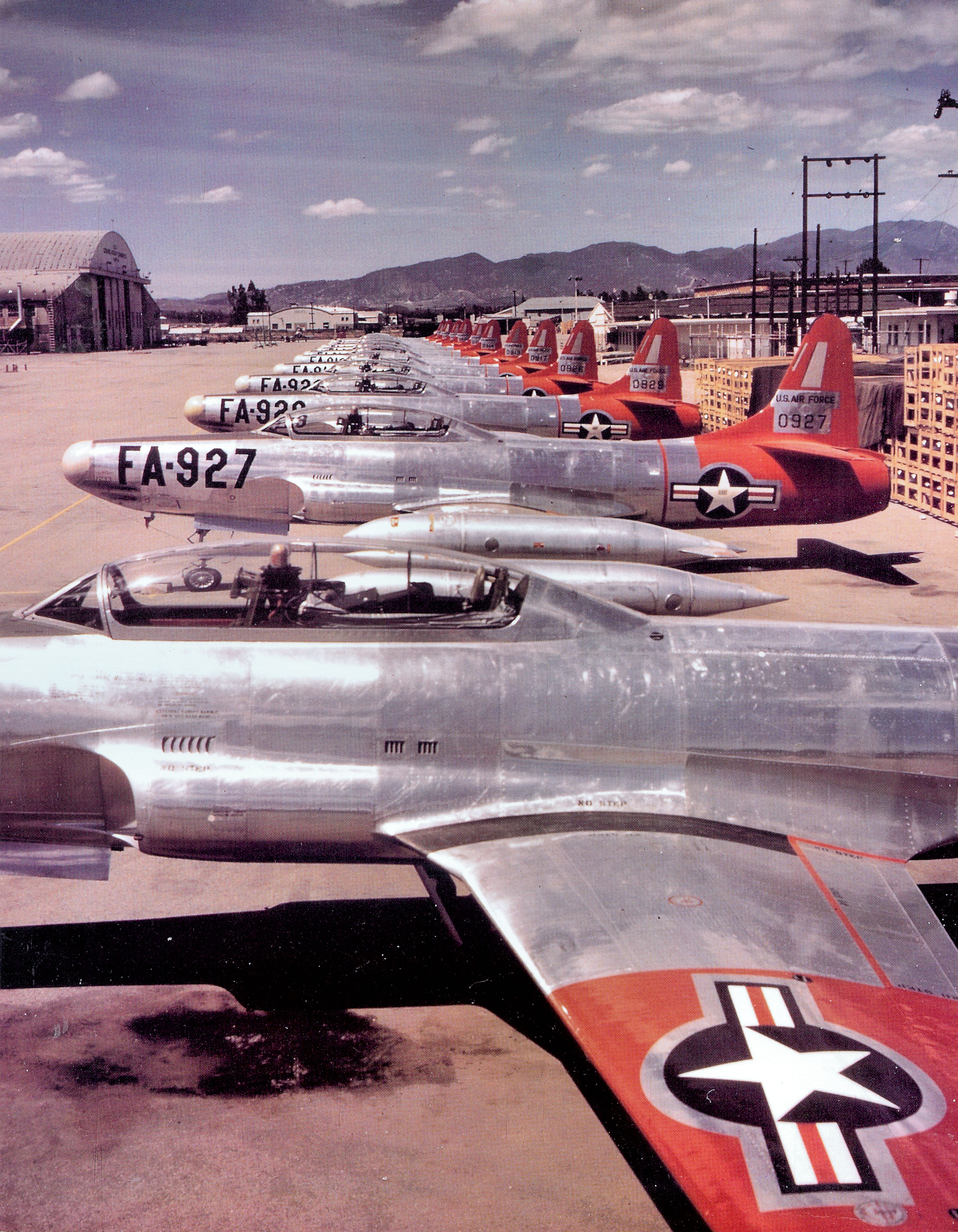 66th Fighter-Interceptor Squadron F-94B Starfires at Elmendorf AFB, Alaska. Lockheed F-94B-1-LO 50-927 in forground. This aircraft crashed 3 mi WSW of Anchorage, AK Jan 6, 1953.